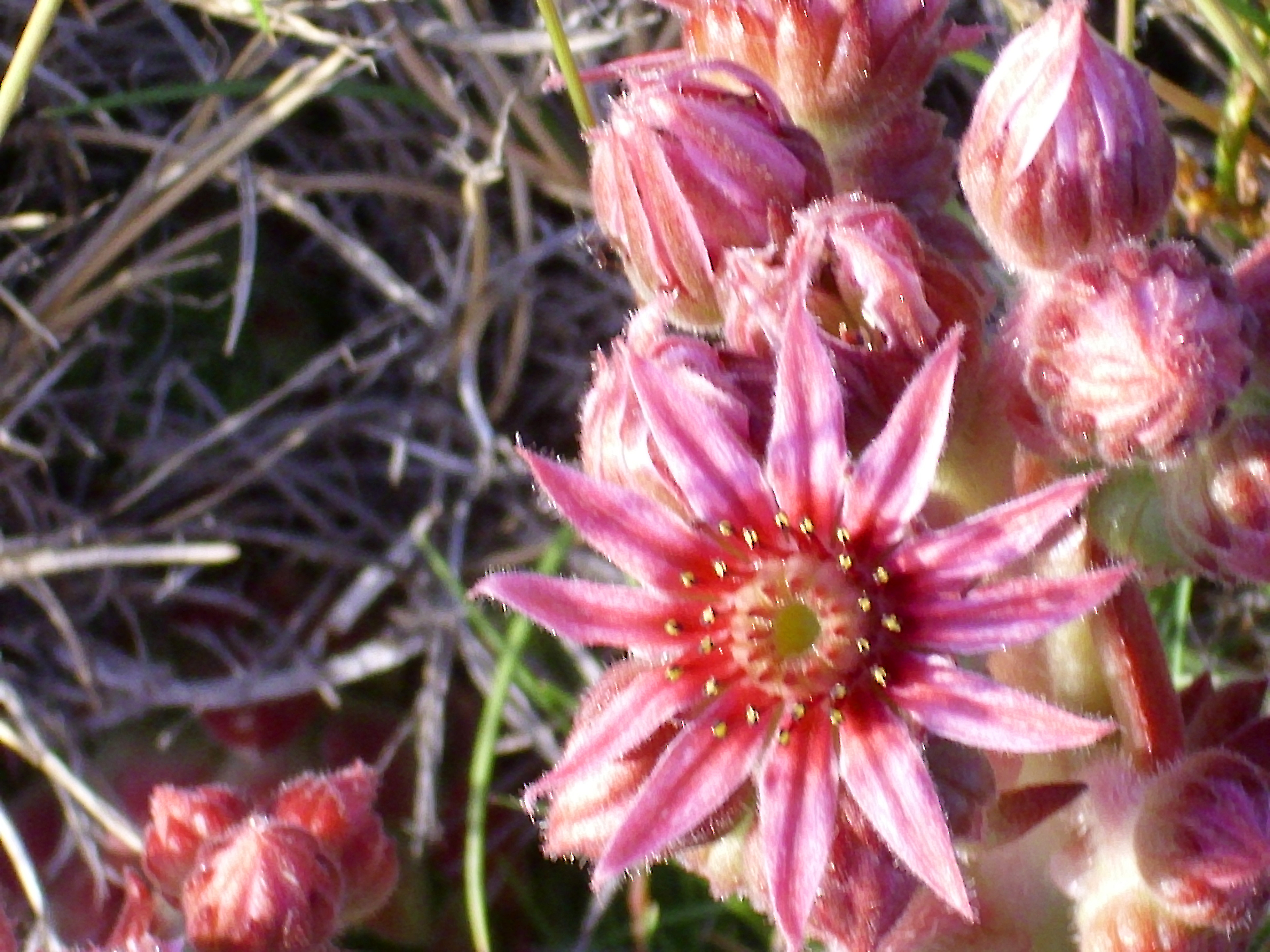 Sempervivum nevadense, close up, Sierra Nevada, Spain